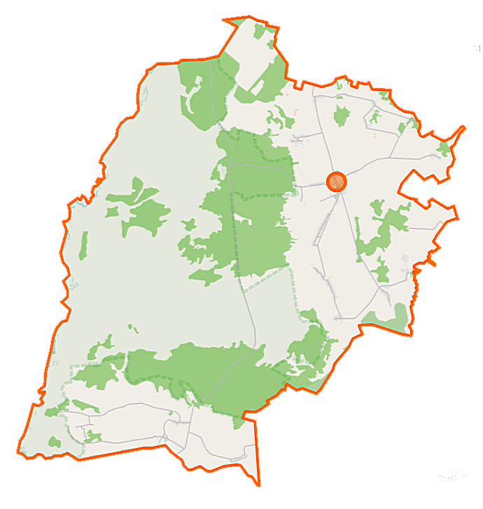 Map of Gmina Trzcianne, Poland This map of Trzcianne (gmina) was created from OpenStreetMap project data, collected by the community. This map may be incomplete, and may contain errors. Don't rely solely on it for navigation. Border coordinates53.429222.4162←↕→22.796653.1912